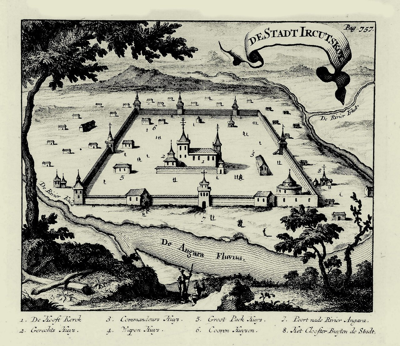 Irkutsk Kremlin in 1697